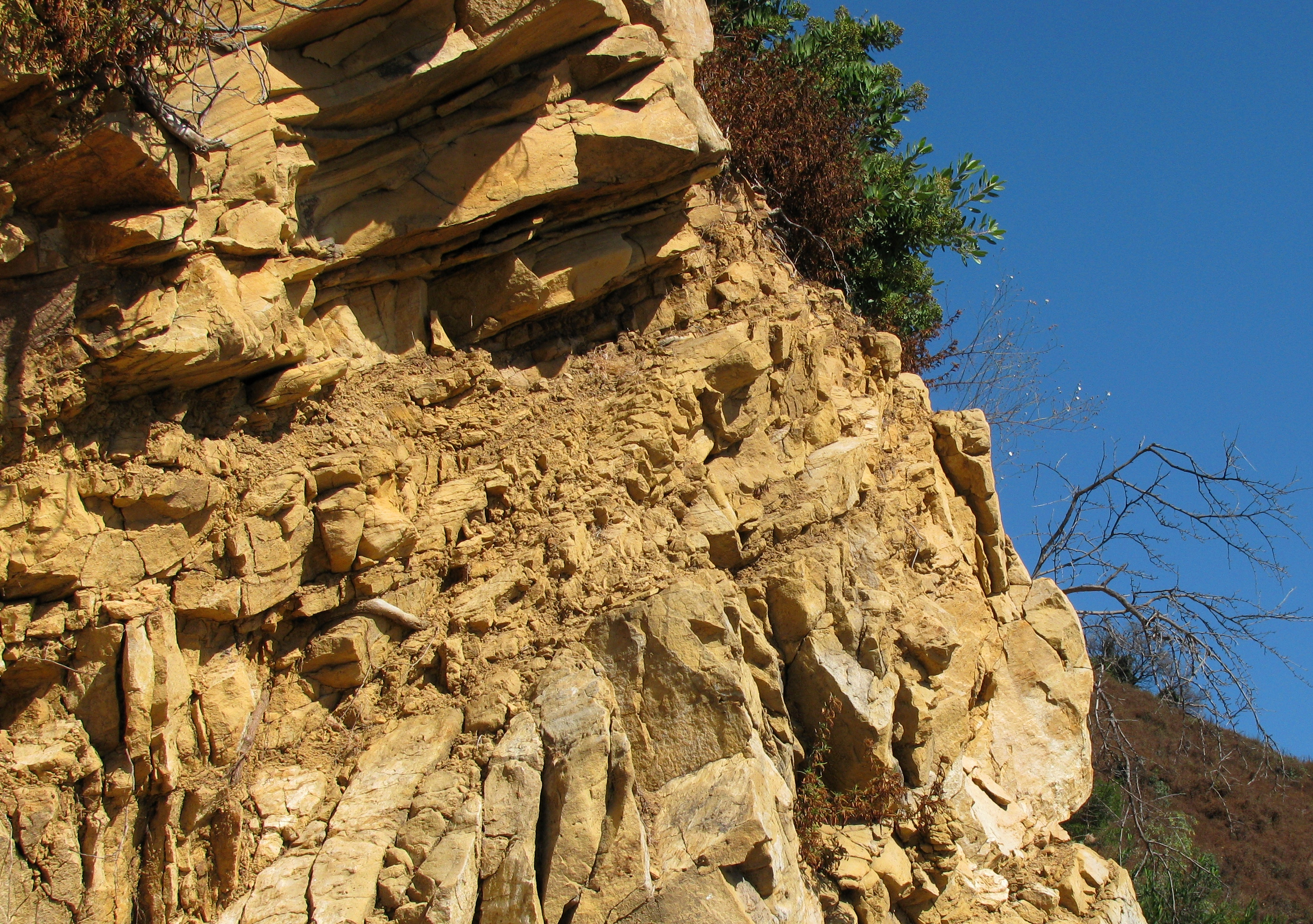 Coldwater Formation; Gibraltar Road, north of Santa Barbara. Photo by self, 9/26/2010.